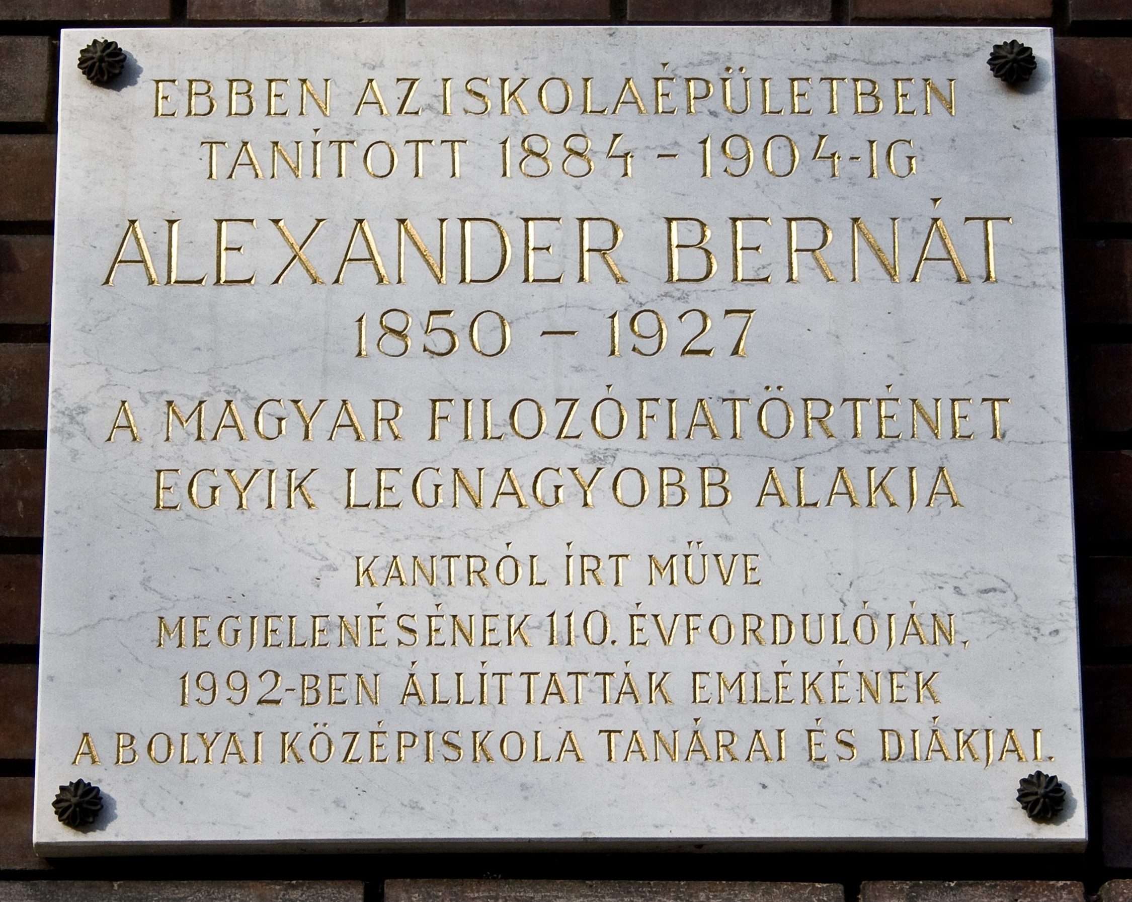 Commemorative plaque of Bernát Alexander, Budapest District V, Markó Street No 18-20